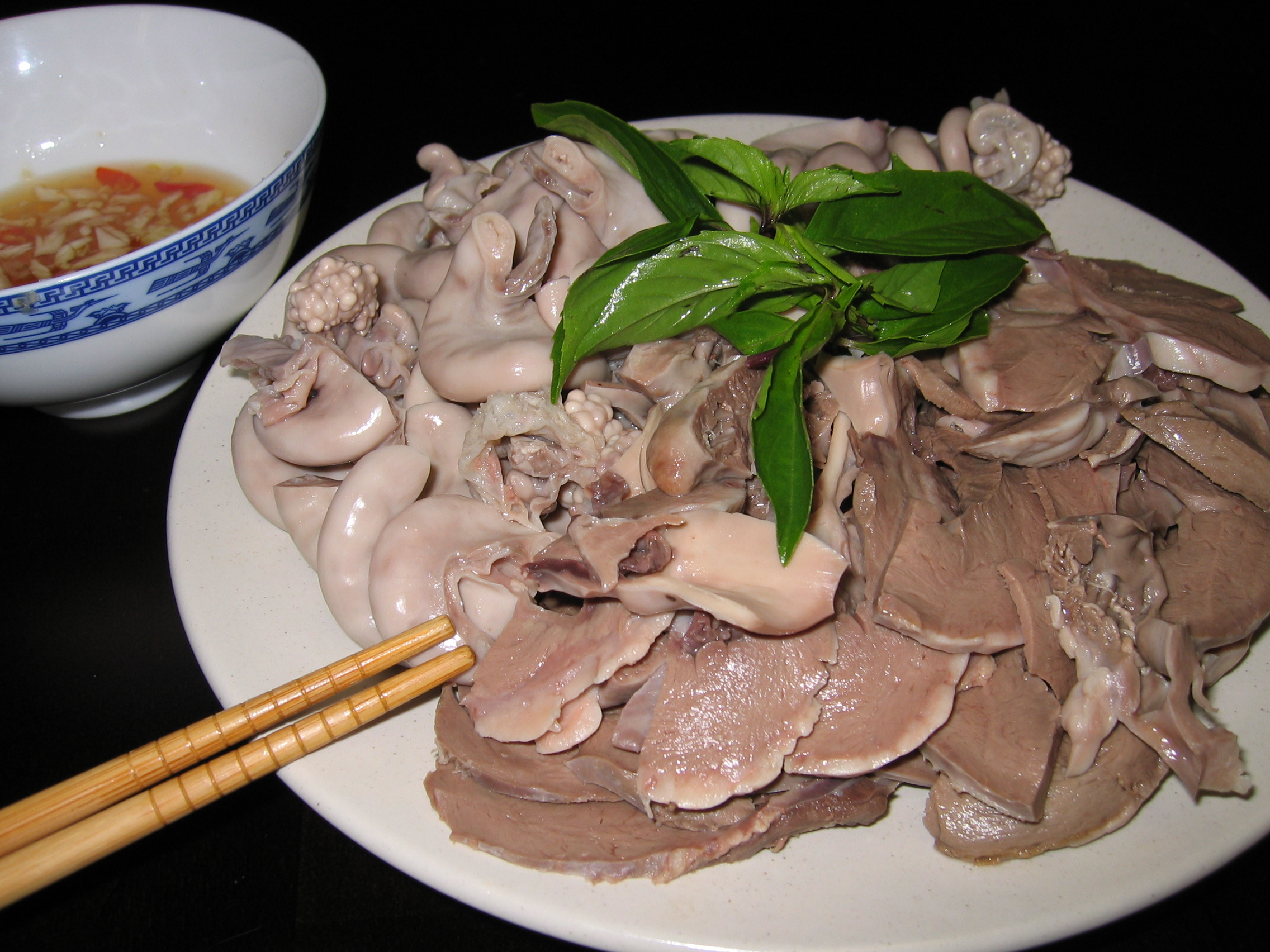 Boiled pig intestine and heart.